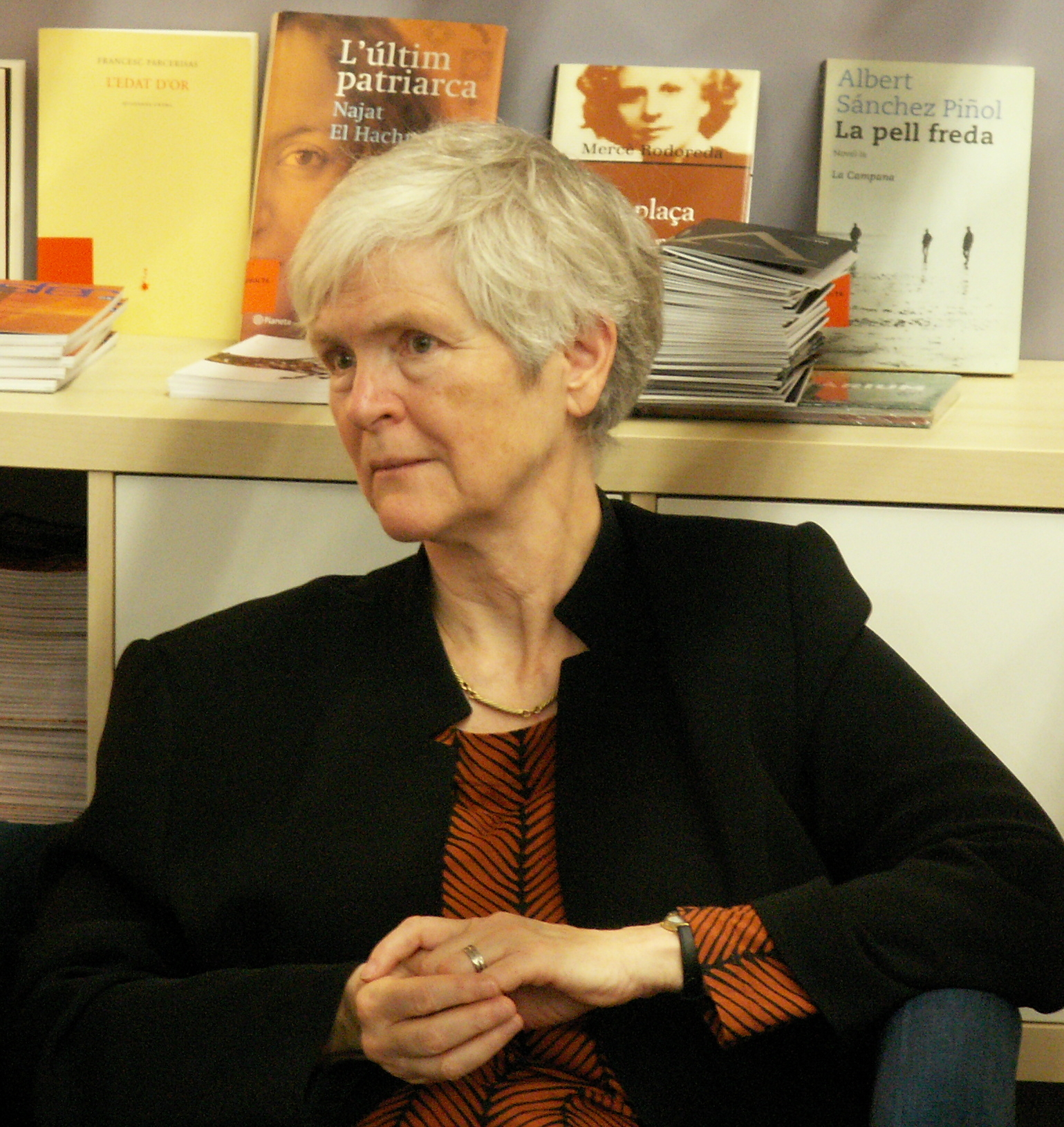 Swedish Professor Inger Enkvist at the Göteborg Book Fair 2014.